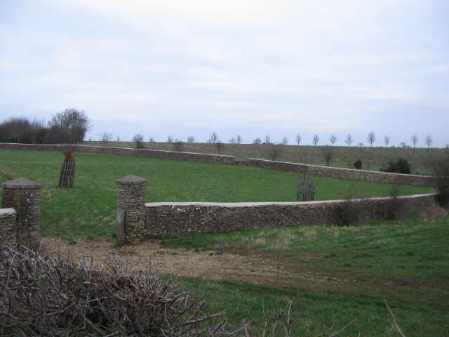 Paddock entrance A view looking to the northeast towards an entrance in the stone wall of a paddock in the grounds of Swangrove House, from the lane between Little Badminton and Dunkirk.